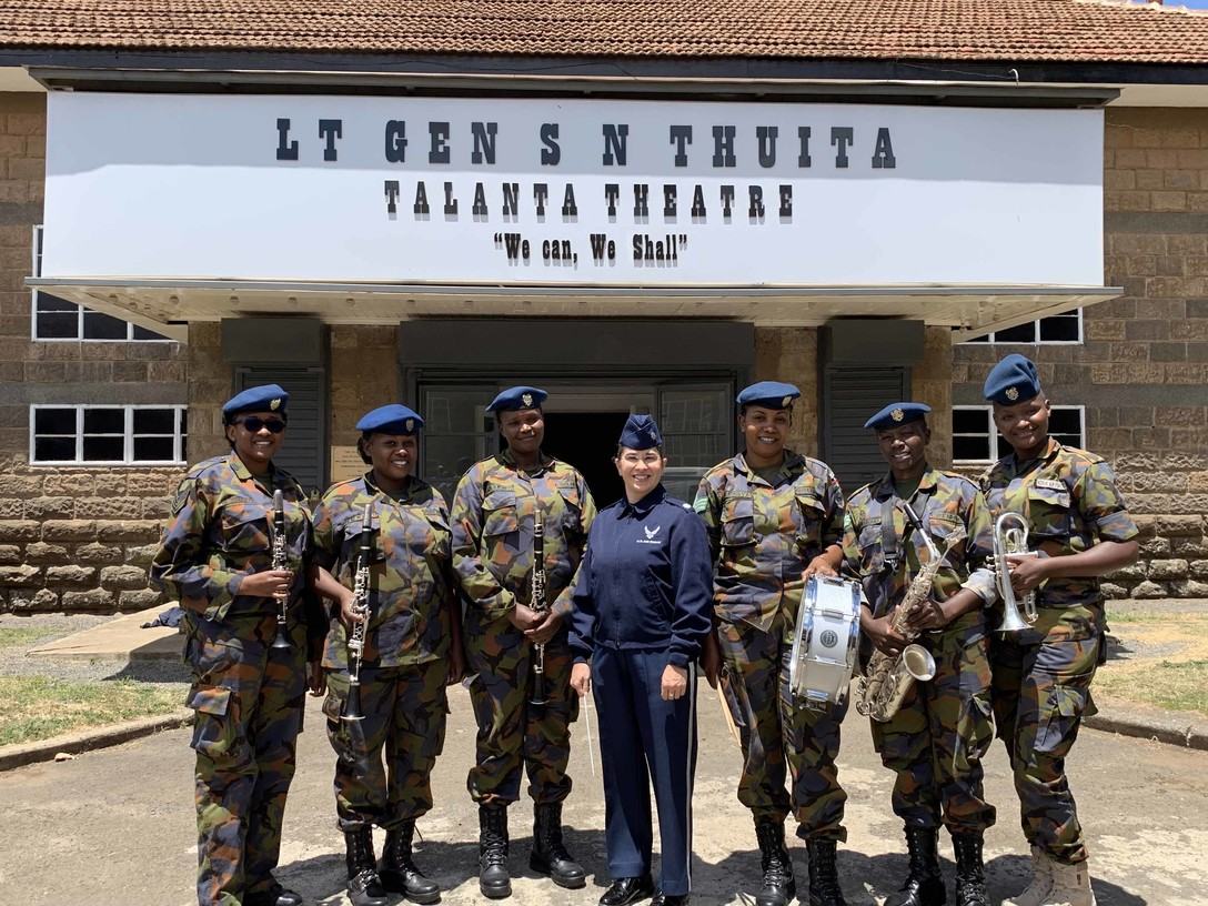 Air Force Lt. Col. Cristina Moore Urrutia, commander and conductor of the U.S. Air Forces in Europe Band, poses with female members of the Kenyan Air Force Band in Nairobi, Kenya, Aug. 25, 2019. The USAFE Jazz Ambassadors performed with the Kenyan concert band during the African Air Chiefs Symposium.